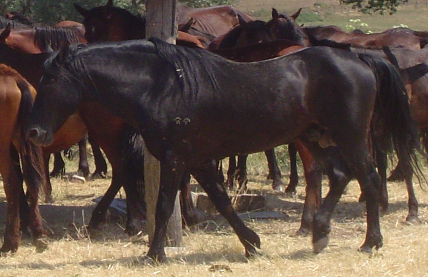 Stallion of the herd of Manlio Fani, breeder of the Cavallo Romano della Maremma Laziale, photographed in the plains of Rieti during the annual transhumance from Ponzano Romano to the high mountain summer pastures